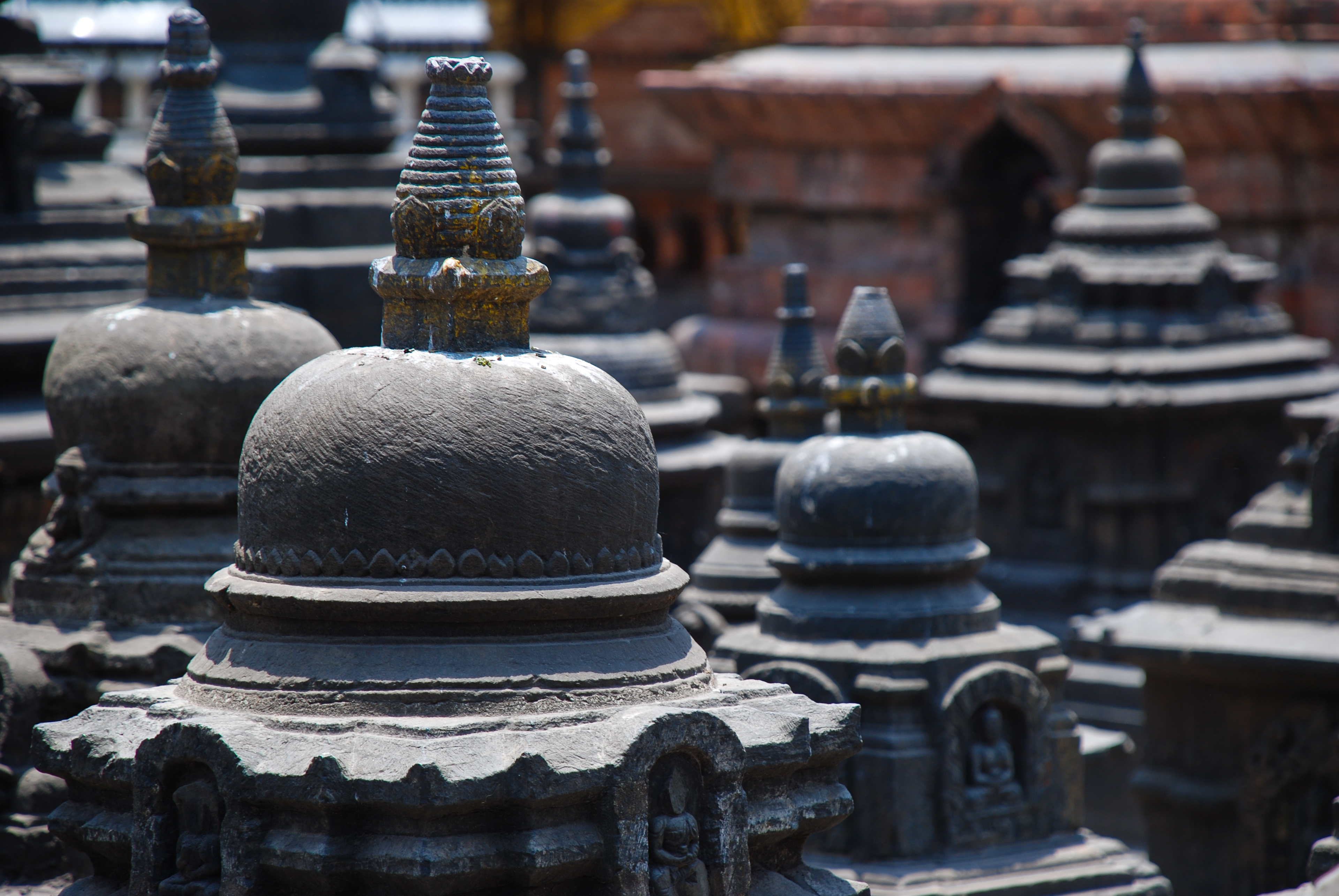 Mini stupas next to the main stupa at Swayambhunath, Nepal.